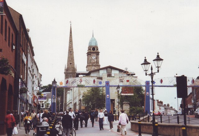 Lisburn Market Place, Ulster The copper domed tower in the background is the Assembly Rooms.